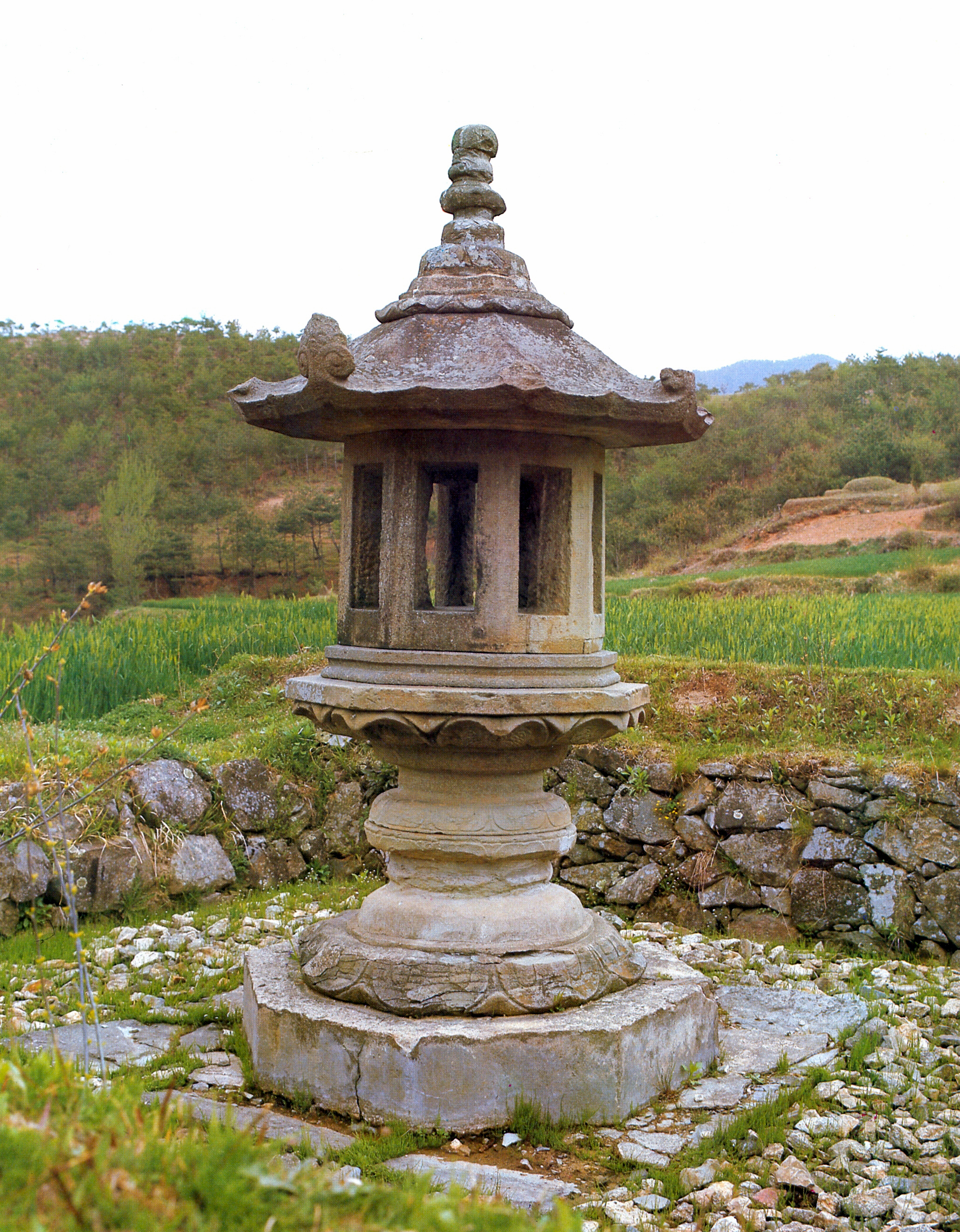 Stone lanterns at Gaeseonsa temple site in Damyang, Korea